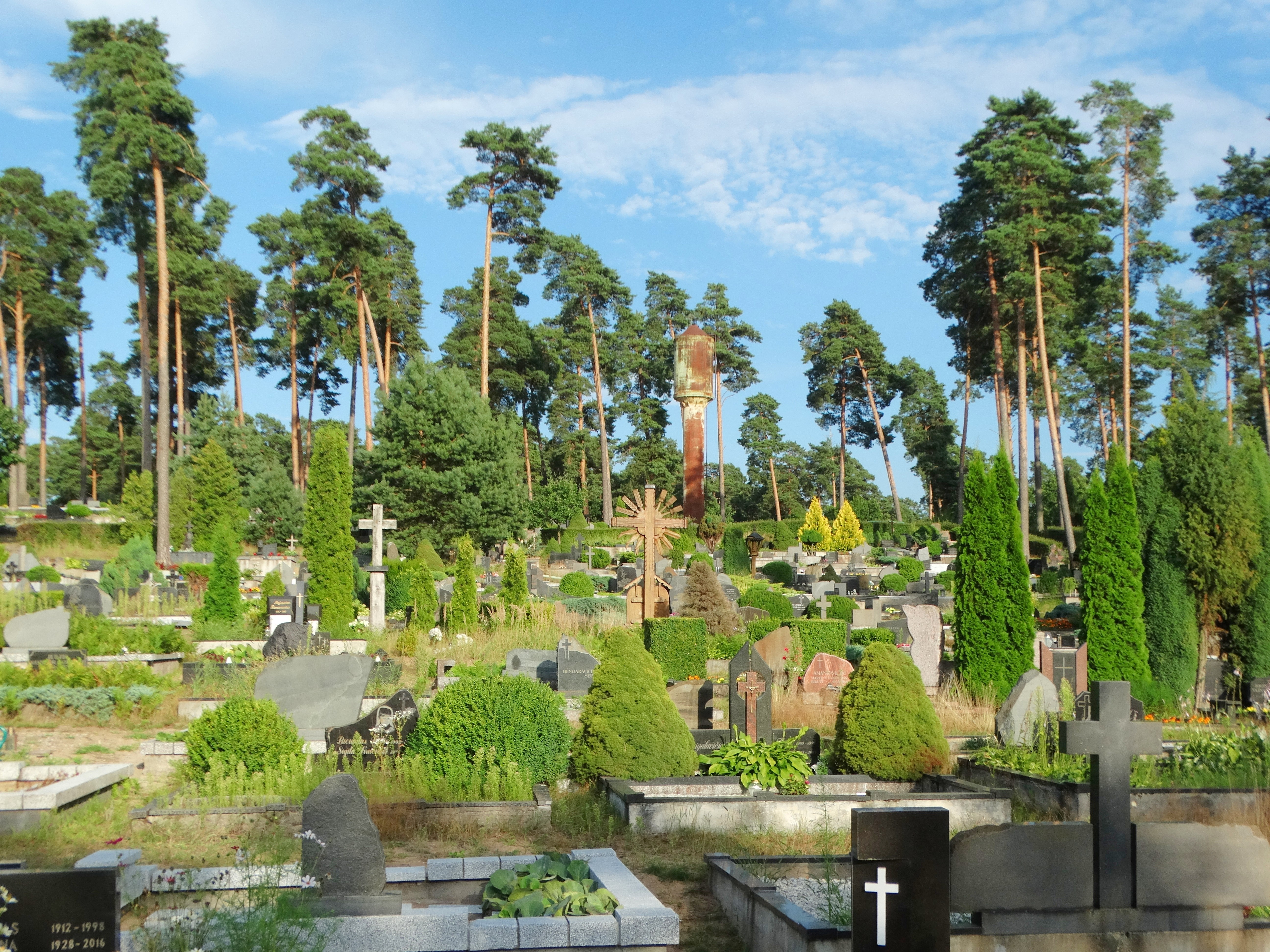 Cemetery, Karmėlava, Lithuania